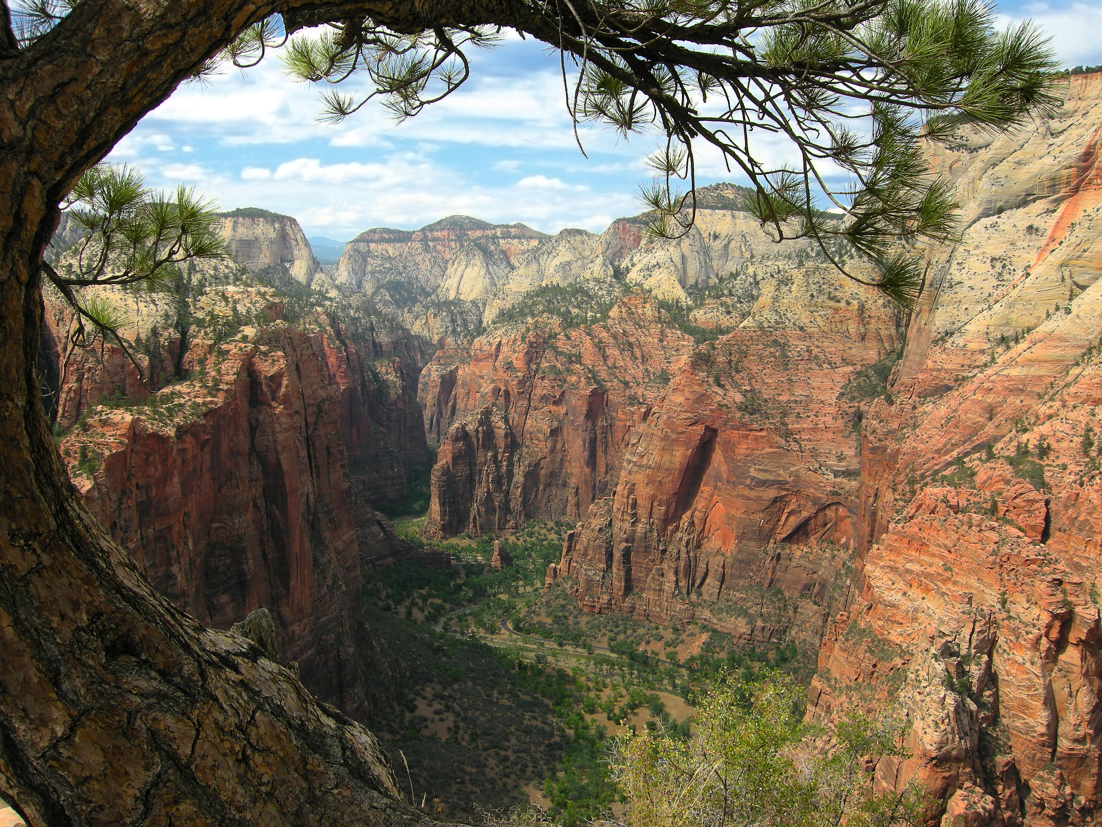 breathtaking view from the Angels Landing trail looking northward to the Narrows, Zion National Park, Utah, USA.